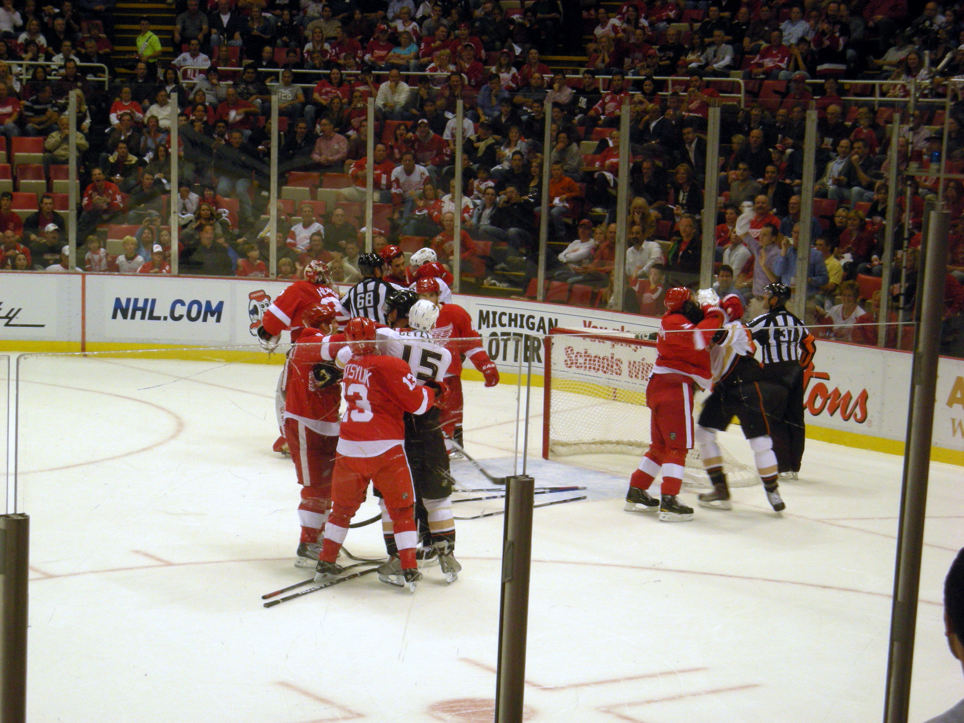 A scuffle after the whistle during the Anaheim Ducks vs. Detroit Red Wings ice hockey game at Joe Louis Arena in Detroit, Michigan (United States). Detroit won 4–0.